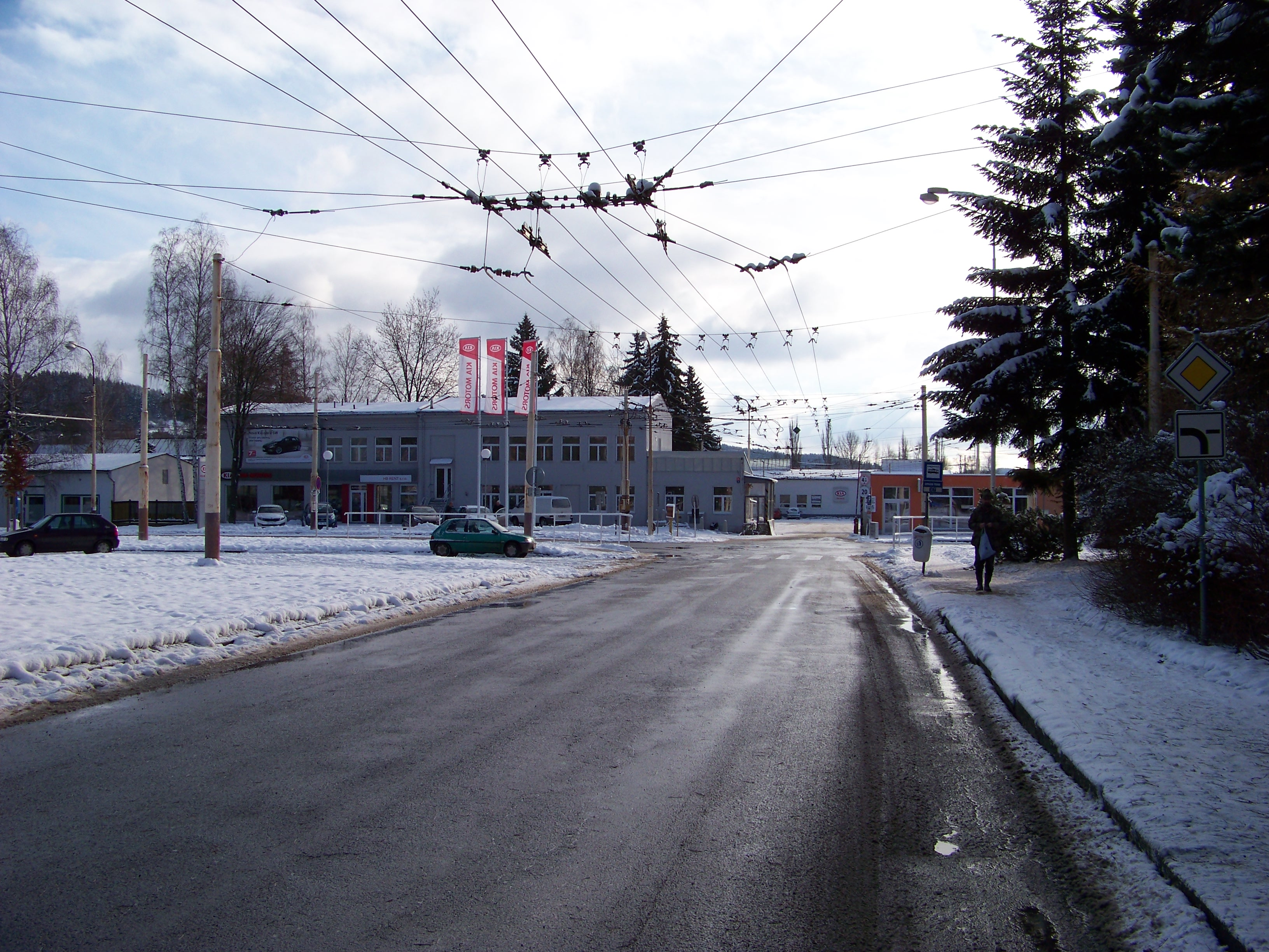 Mariánské Lázně-Úšovice, Cheb District, Karlovy Vary Region, the Czech Republic. Skalníkova street, a bus and trolleybus depot in Tepelská street.